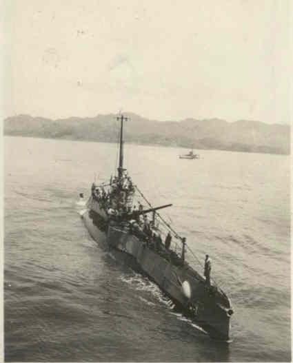 United States Navy submarine